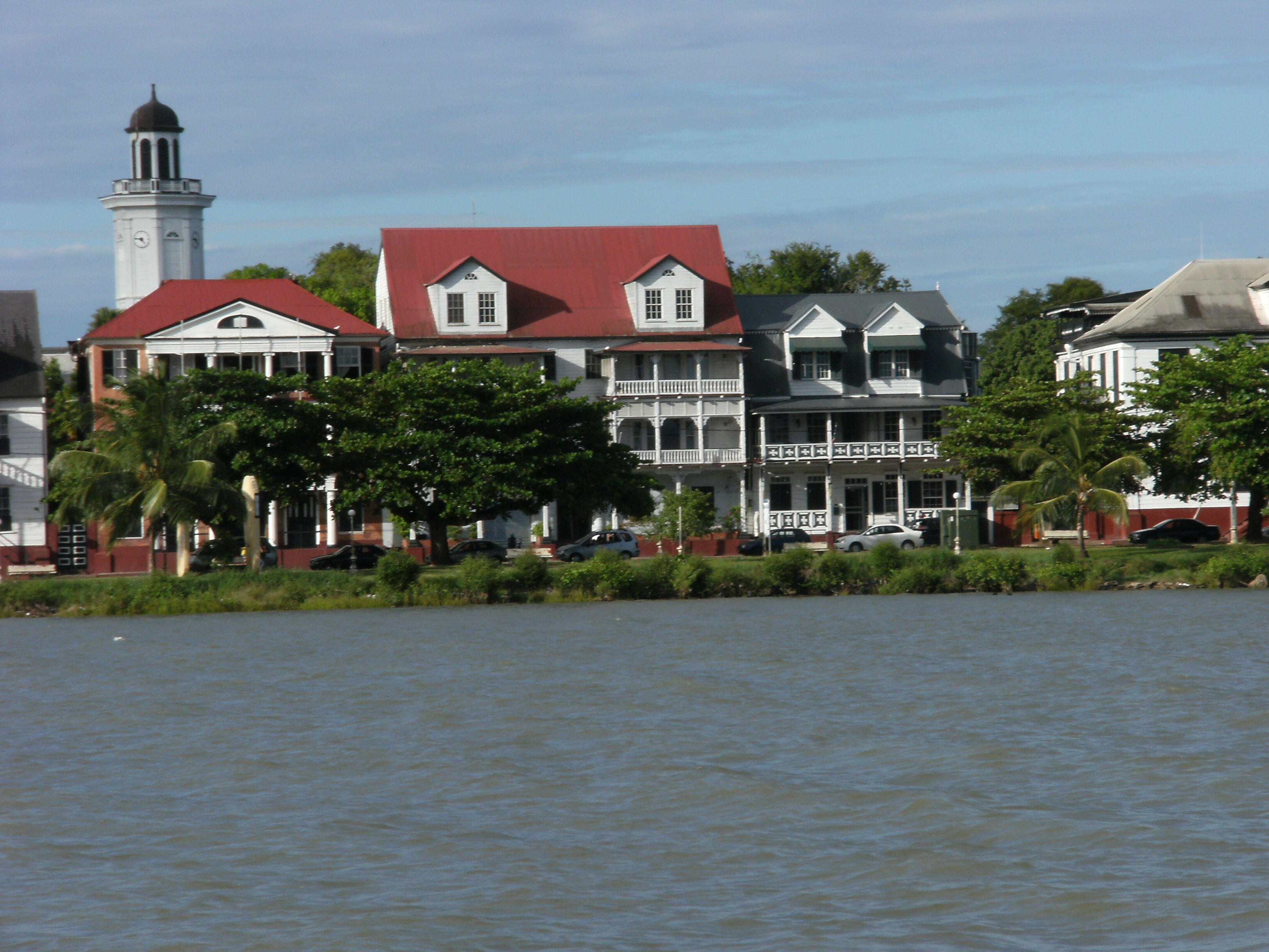 Waterkant as seen from Suriname river.